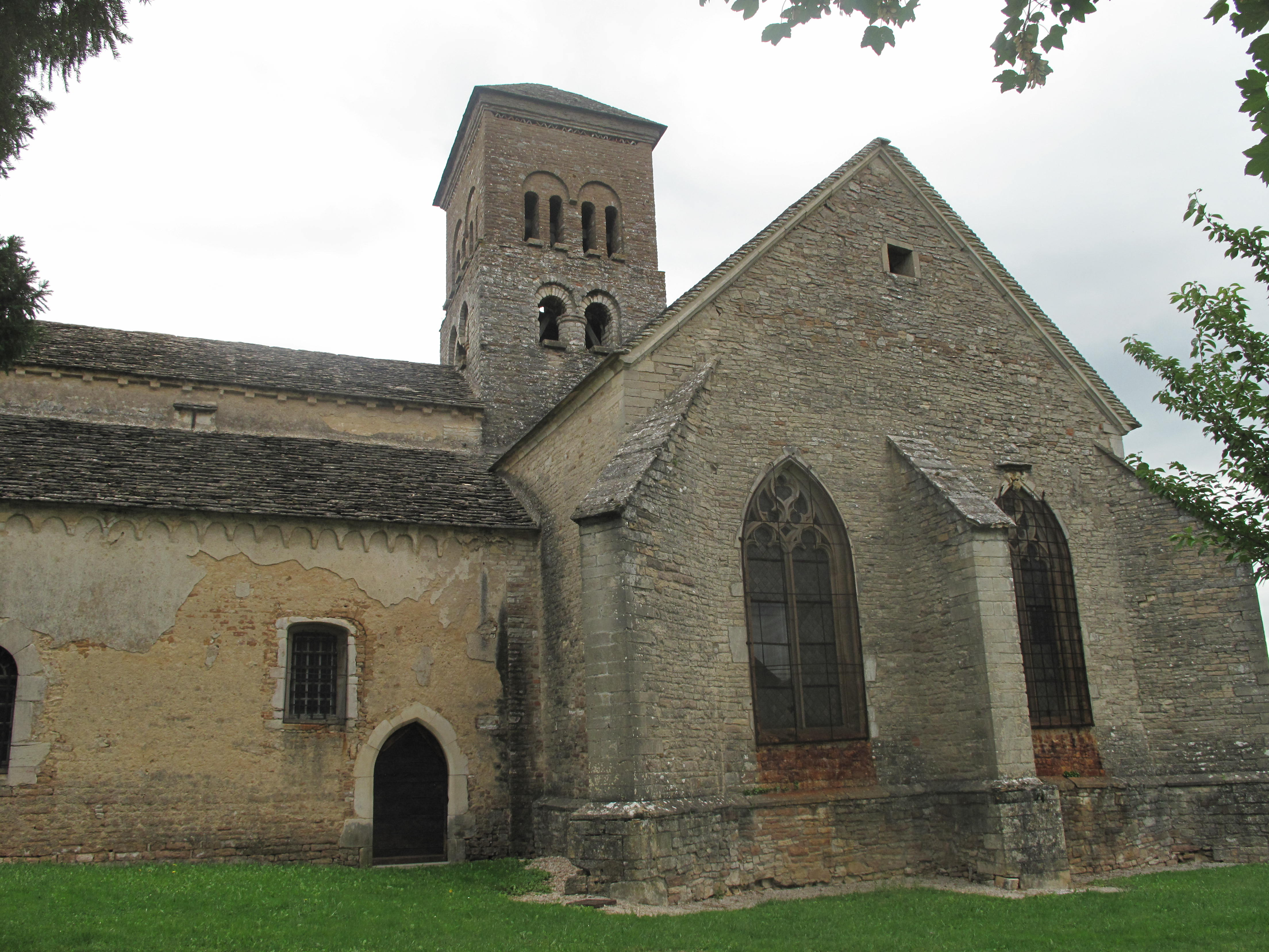 The church of Saint-Julien in Sennecey-le-Grand, Saône-et-Loire, France